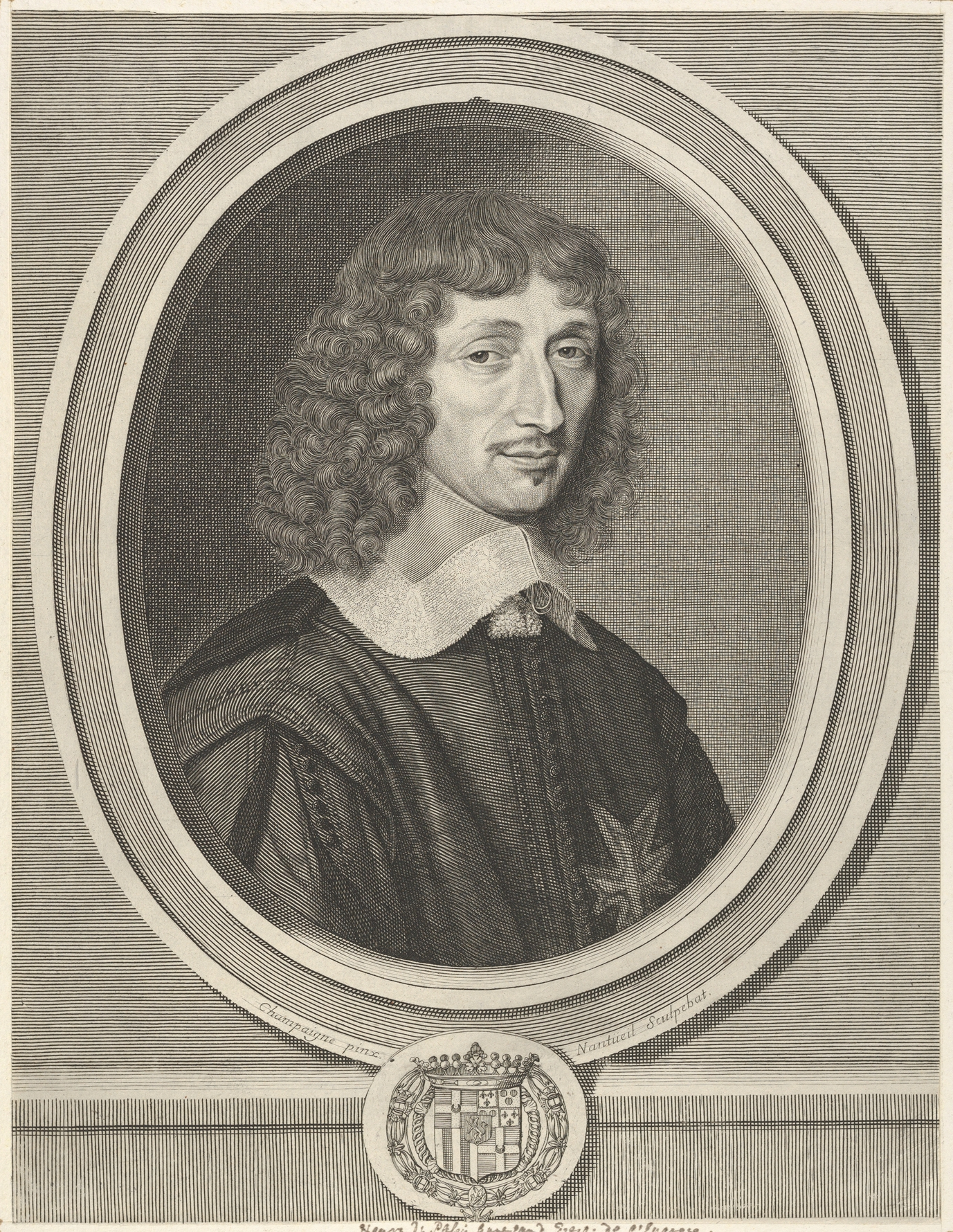 Portrait of Henri de Guénégaud, French Secretary of State in the Maison du Roi in 1643